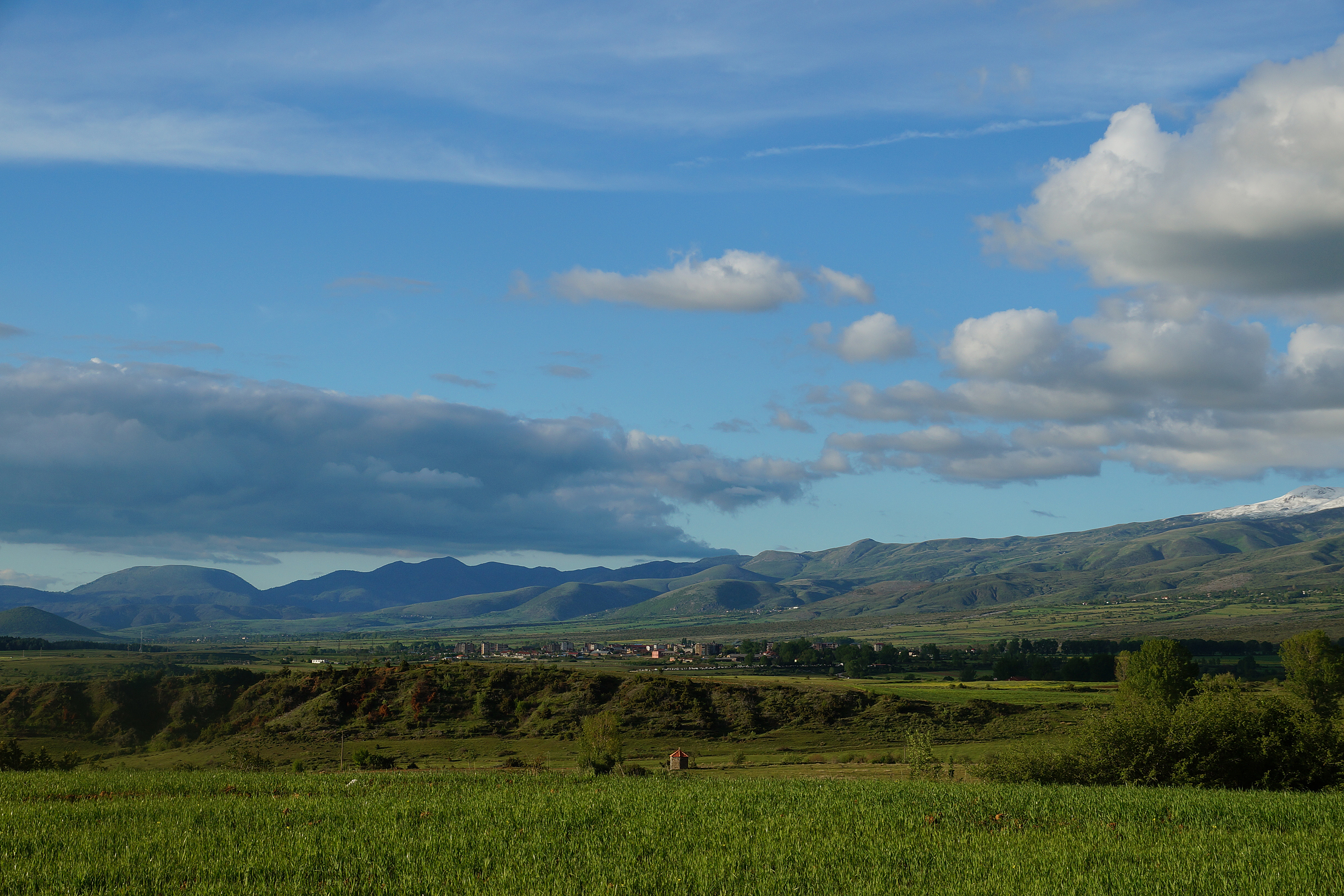 Erseka, Albania – seen from South. Slopes of Grammos mountain to the right